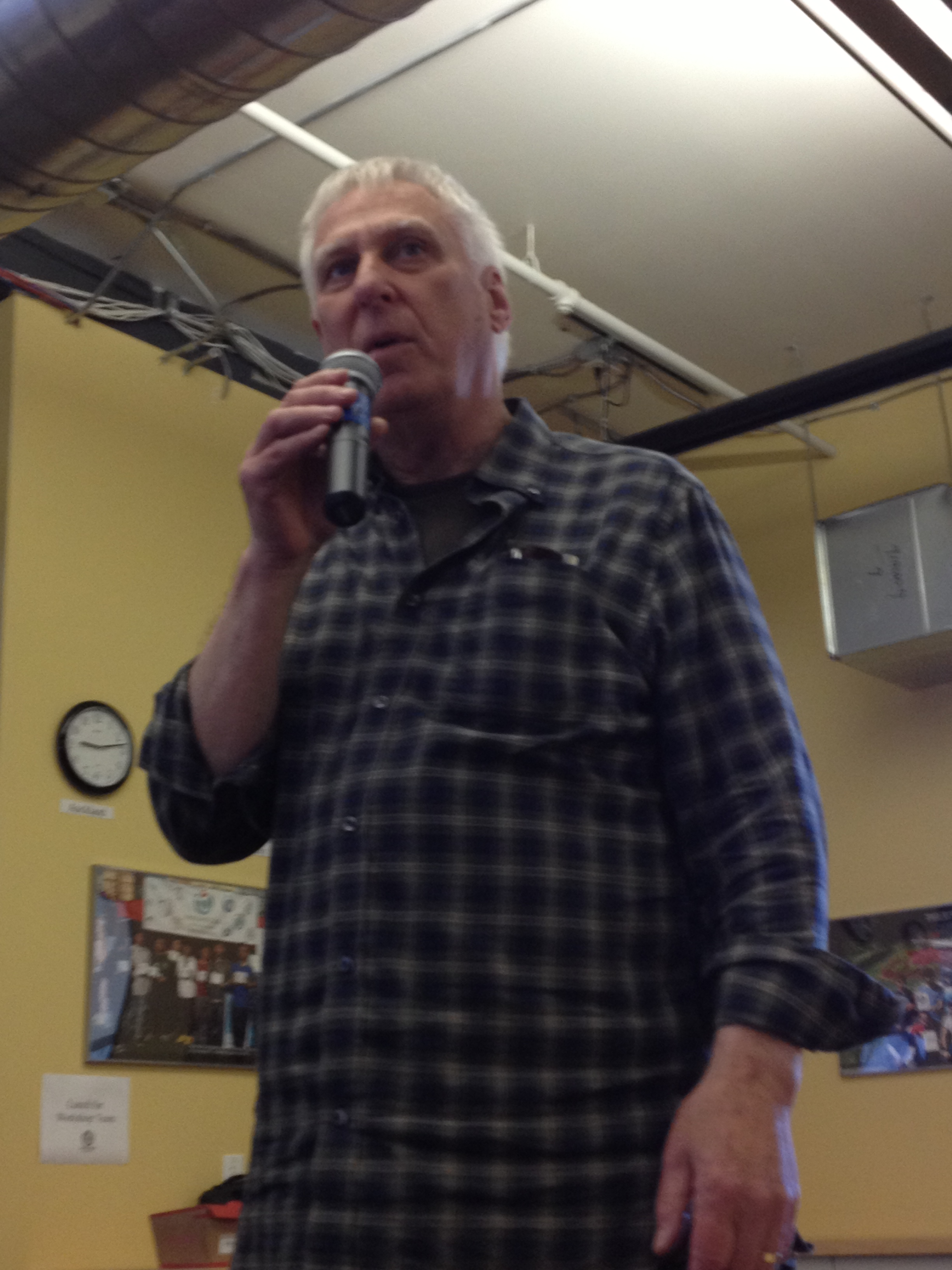 Writer and carpenter John Curl